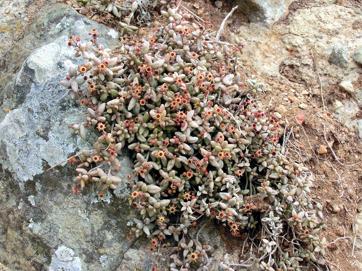 Monanthes laxiflora, habit. N Tenerife, Barranco de Ruiz (E of San Juan de la Rambla), on rocks, ca. 300 m.